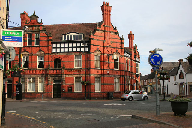 Swan and Chequers. Formerly Corn Exchange and Literary Institute